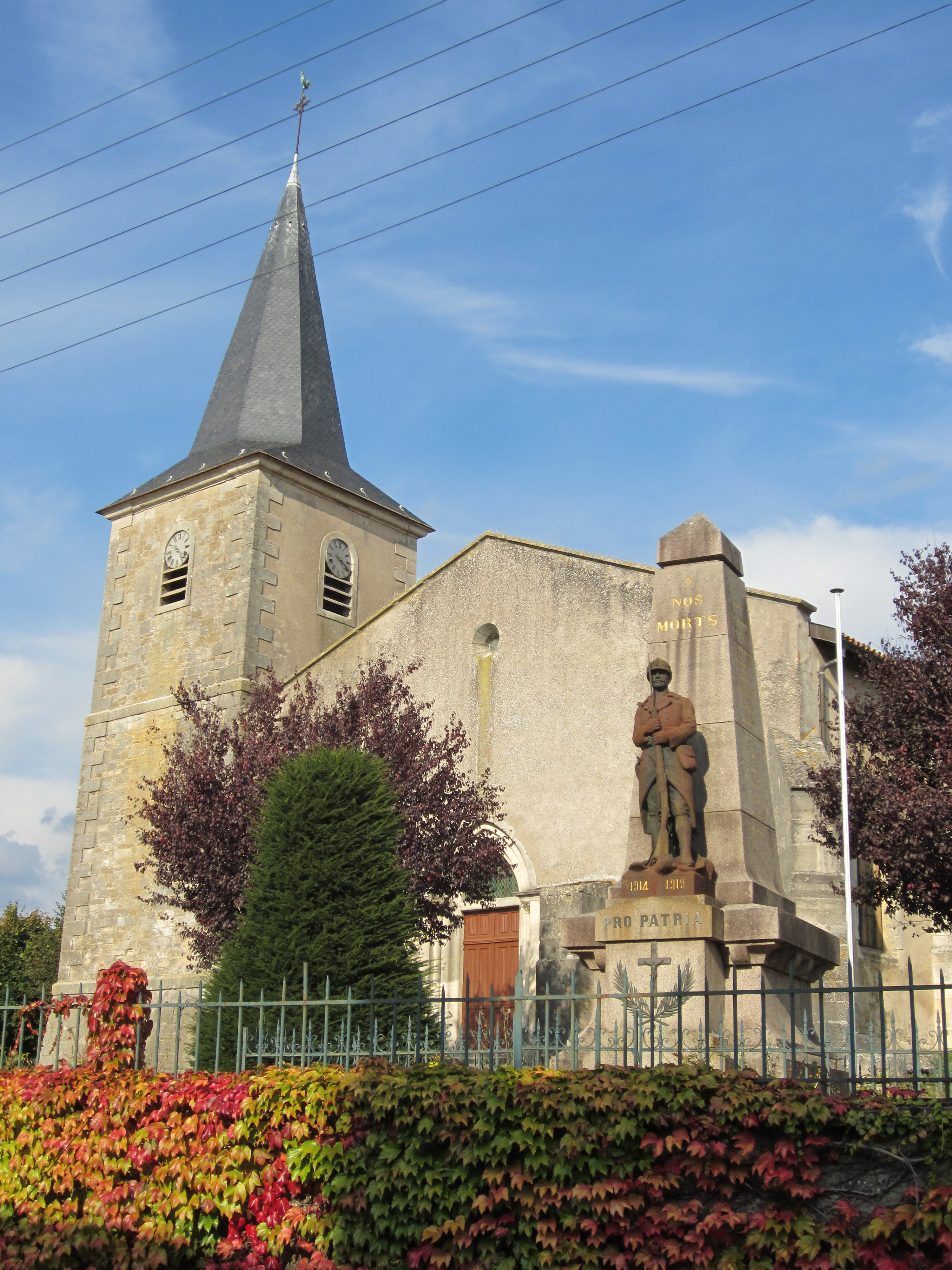 Description eglise Essey Maizerais Date27 September 2011Sourcemon appareil photoAuthorAimelaimePermission (Reusing this file) eglise Essey Maizerais